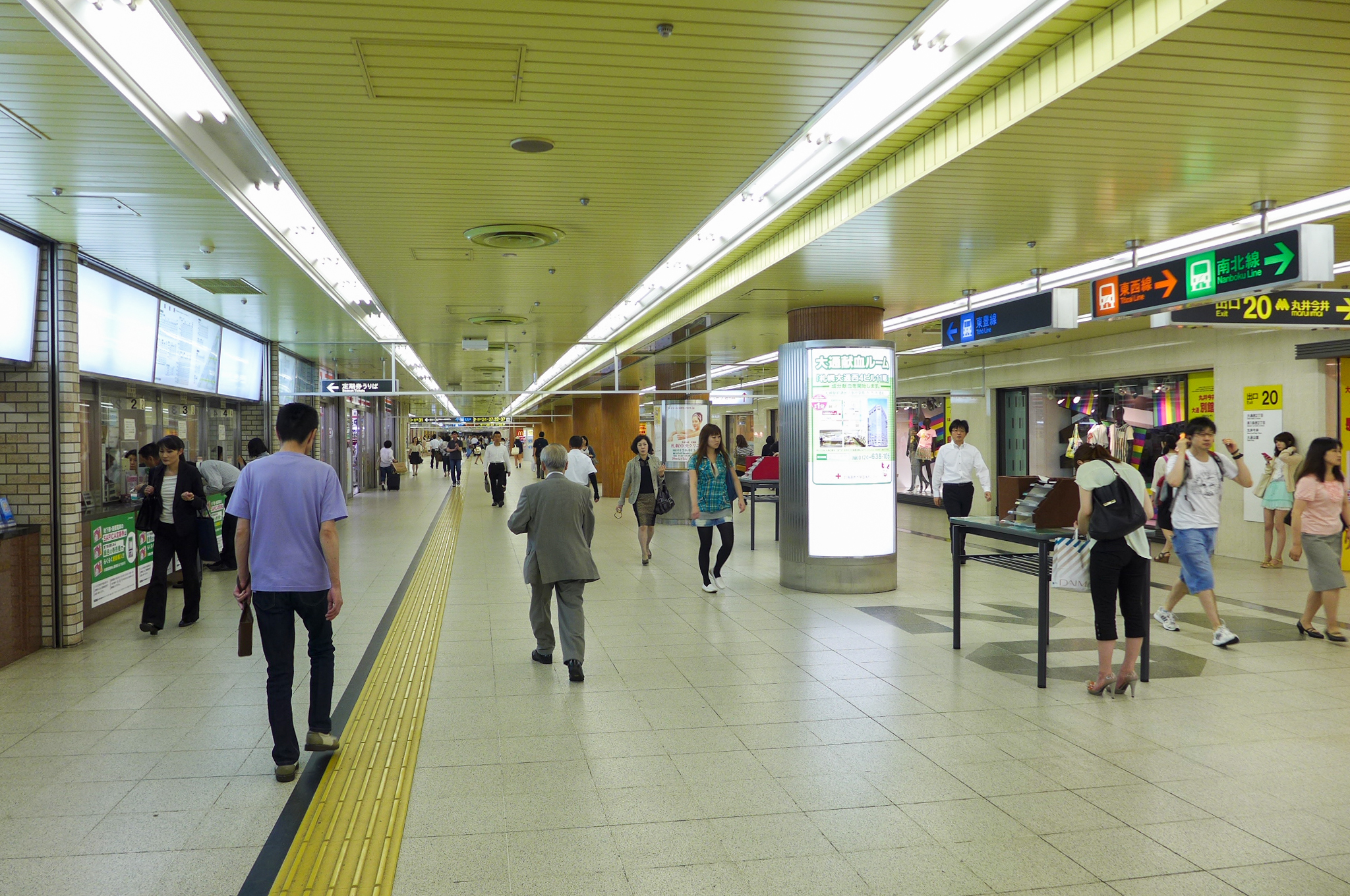 Odori Station Exit access